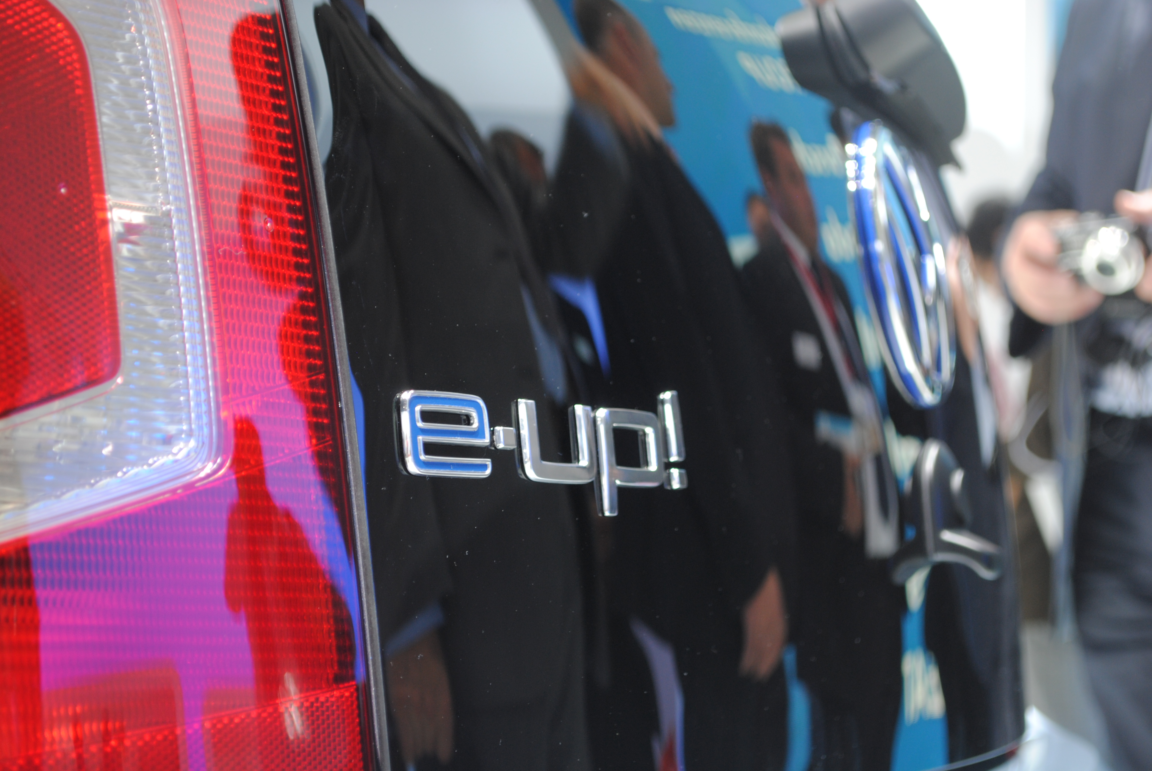 More photos and info - and